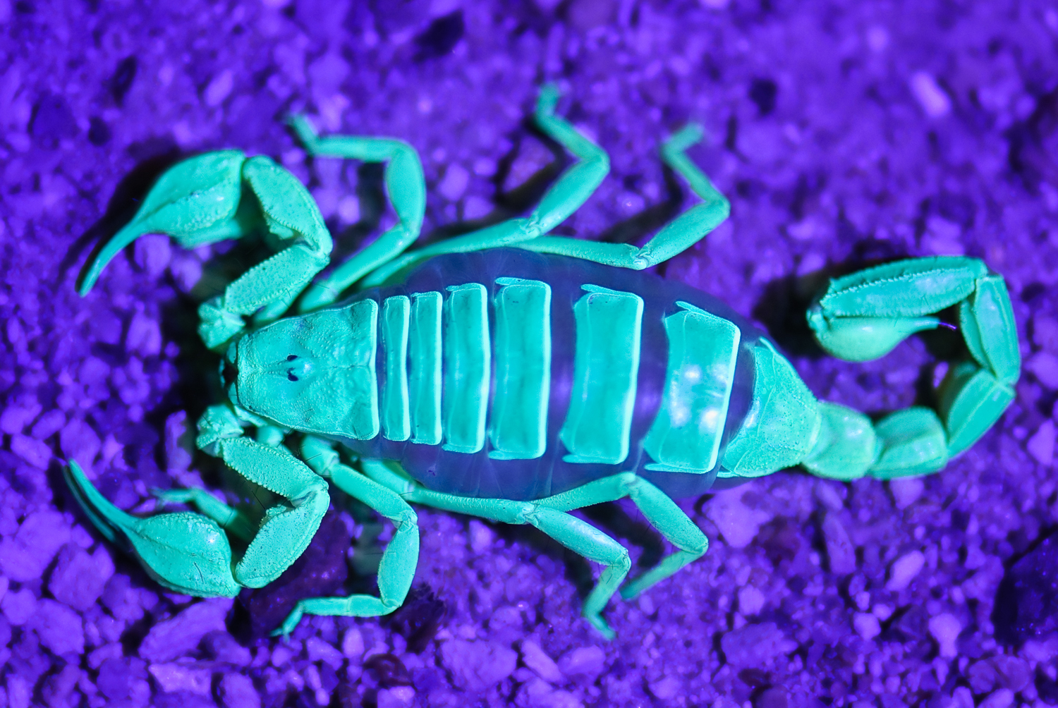 Arachnida, Scorpiones, Paruroctonus scorpion under UV